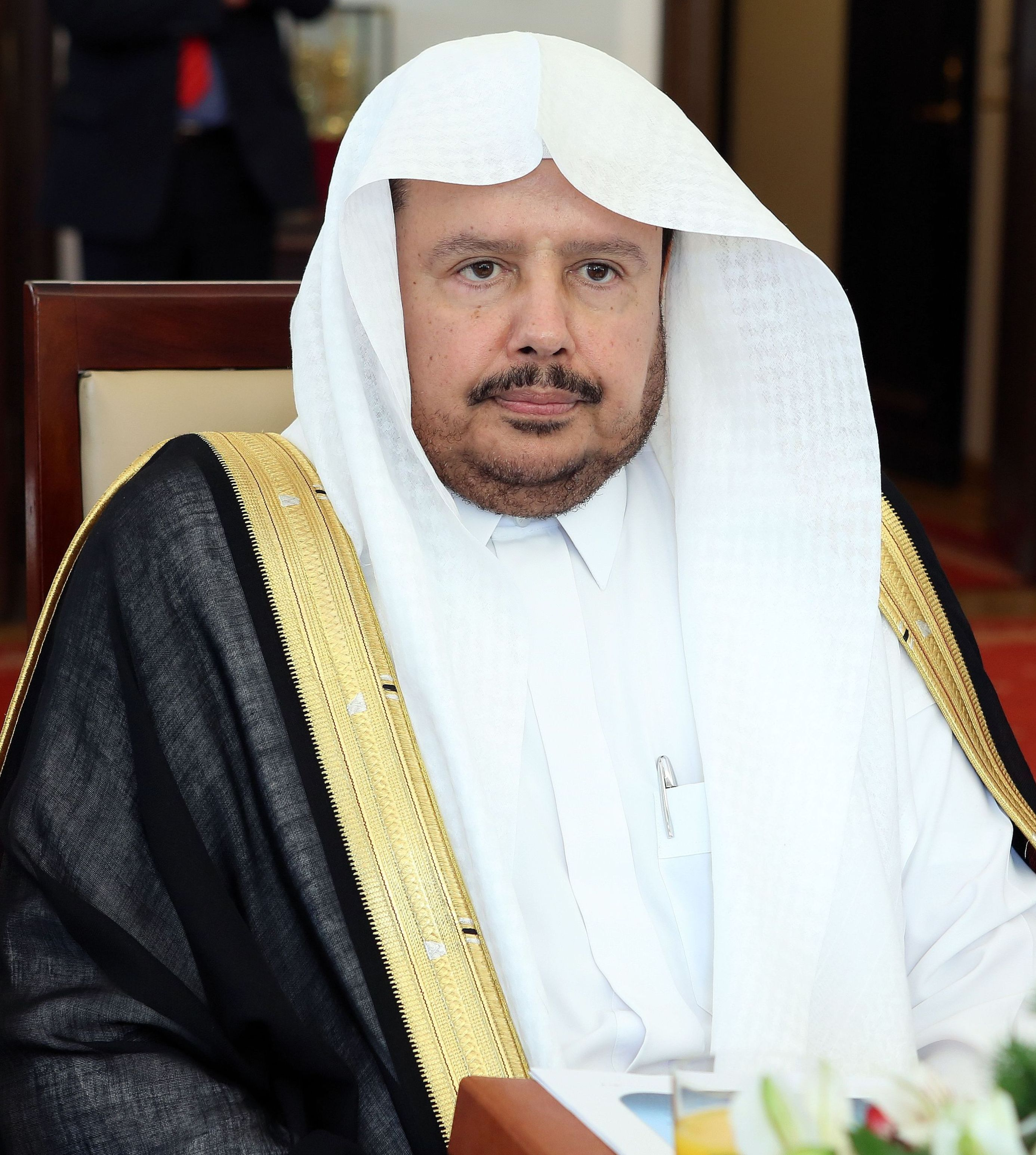 Chairman of the Majlis ash-Shura (Consultative Assembly) of Saudi Arabia Abdullah ibn Muhammad Al ash-Sheikh in the Polish Senate